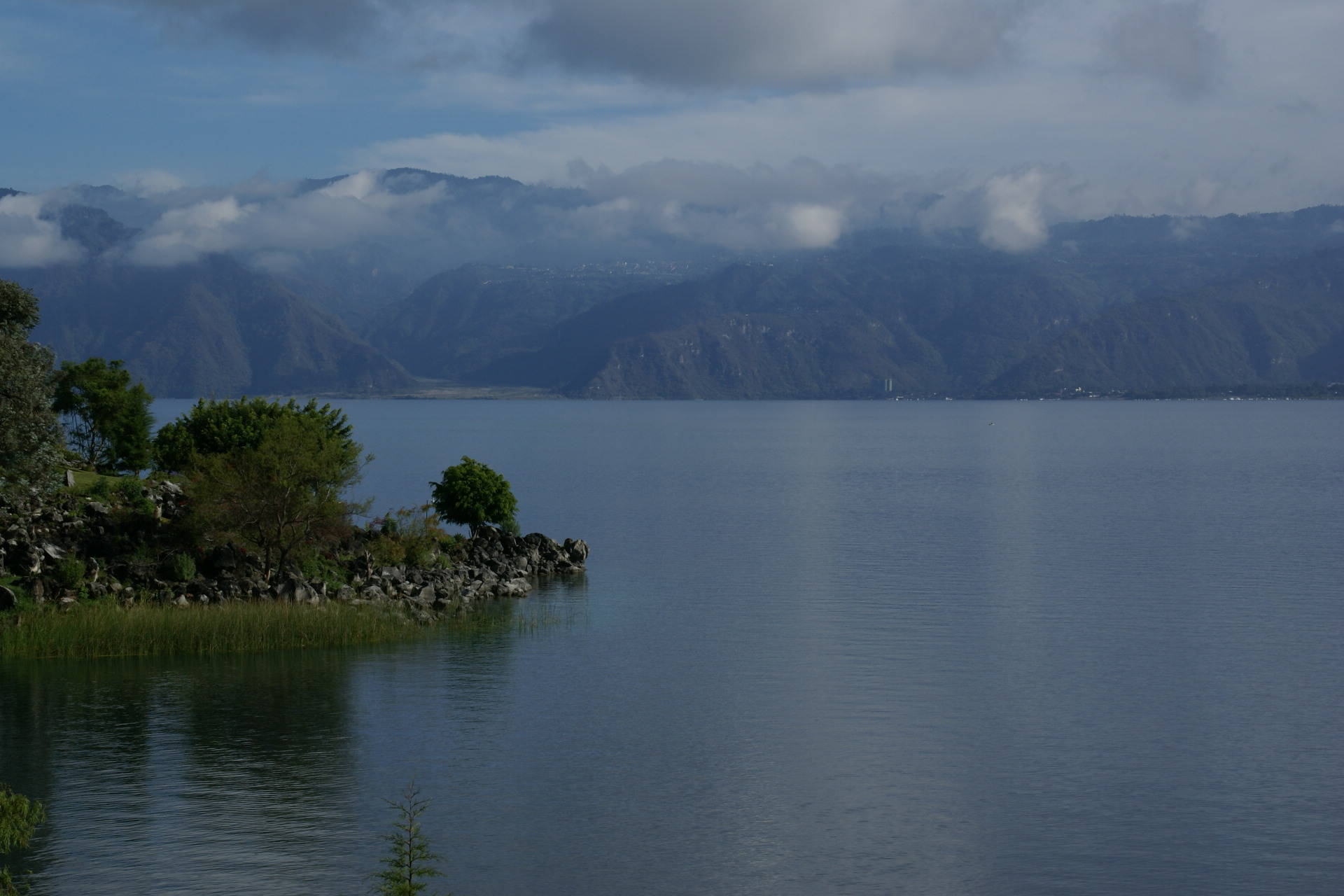 View of Sololá and Panajachel as seen from San Lucas Tolimán at Atitlán Lake in Guatemala